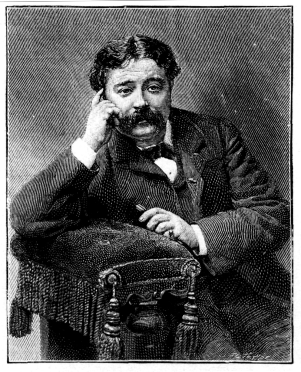 Harry Furniss (1880)